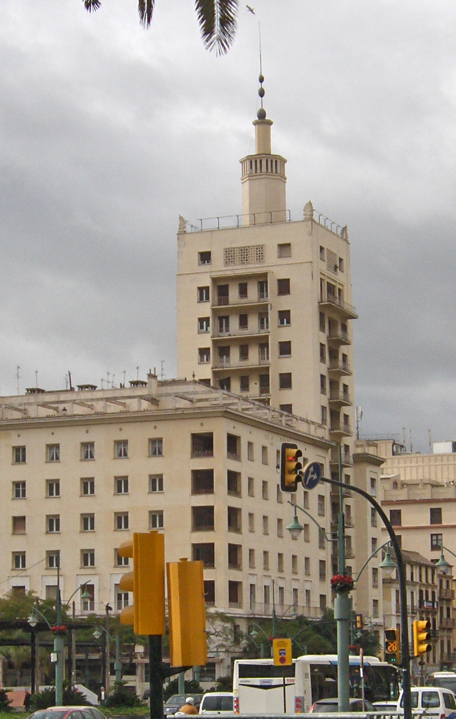 La Equitativa Building (1956), Málaga, Spain